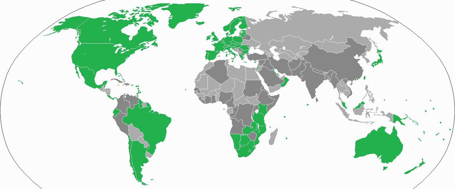 Visa policy of the Cayman Islands